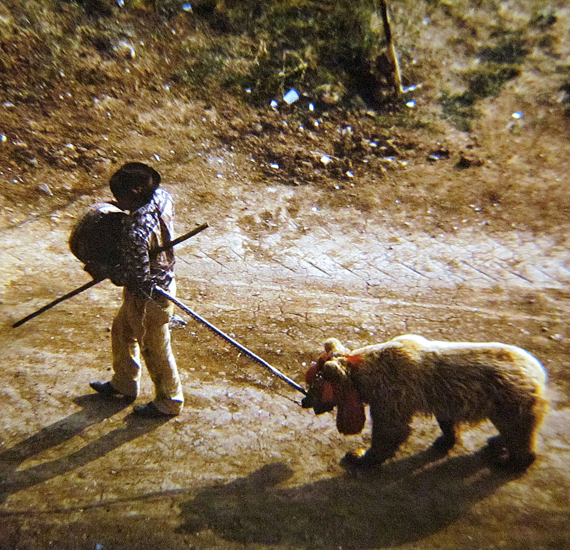 Gipsy and bear (Belgrade, Banovo brdo, 1980's)